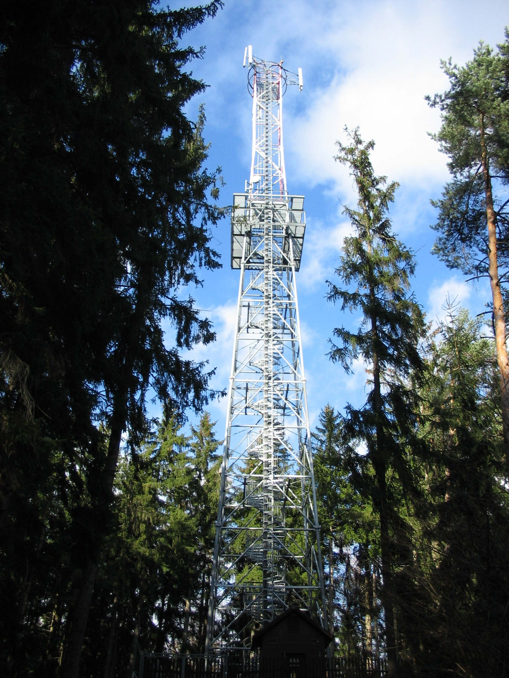 Outlook-tower in Hoslovice, Strakonice District, Czech Republic